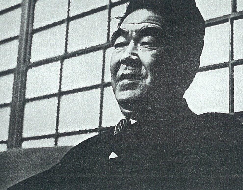 Yukio Yashiro is a Japanese art historian and art critic.